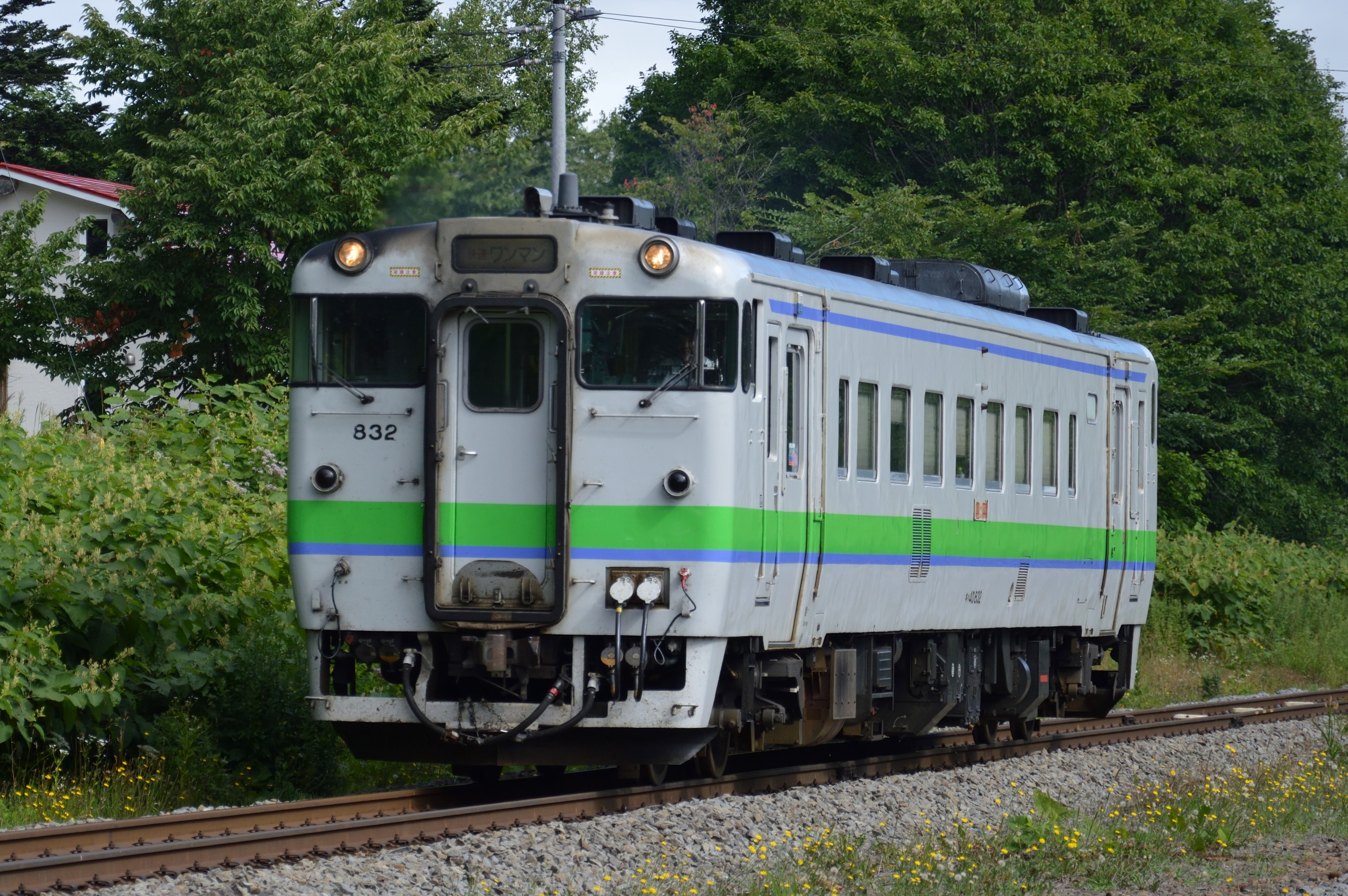 JR Hokkaido KiHa 40 series DMU car KiHa 40-832 on a Nayoro rapid service near Shiokari Station on the Soya Main Line in Hokkaido, Japan